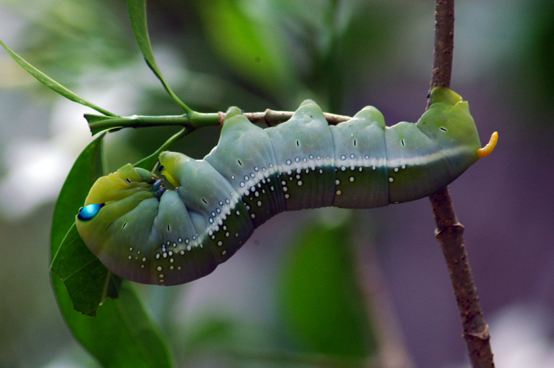 Photo of an Oleander Moth Caterpillar, Mulshi, Pune-India